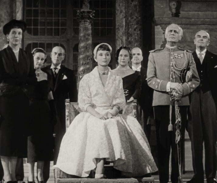 L. to R. (foreground) : Margaret Rawlings, Audrey Hepburn & Tullio Carminati in Roman Holiday - trailer (cropped screenshot)